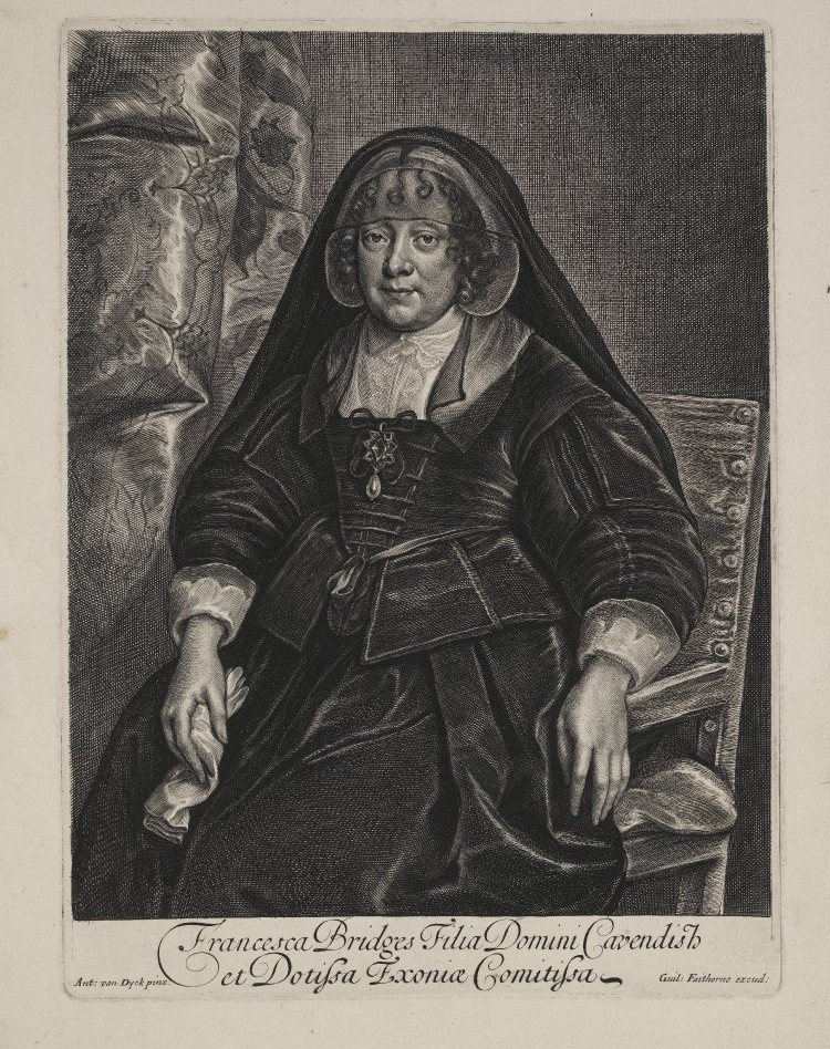 Portrait of Frances, countess of Exeter. Engraved in the 1660s by William Faithorne, after Anthony van Dyck. Original van Dyck was lost in the 19th-century.